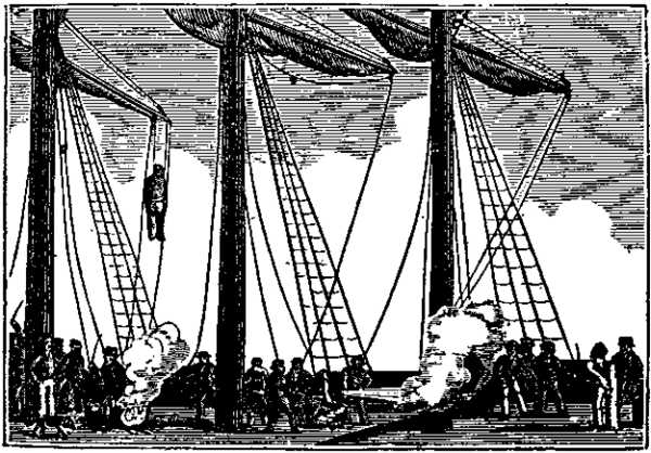 The Cruelties practised by Captain Edward Low as depicted in The Pirates Own Book by Charles Ellms.